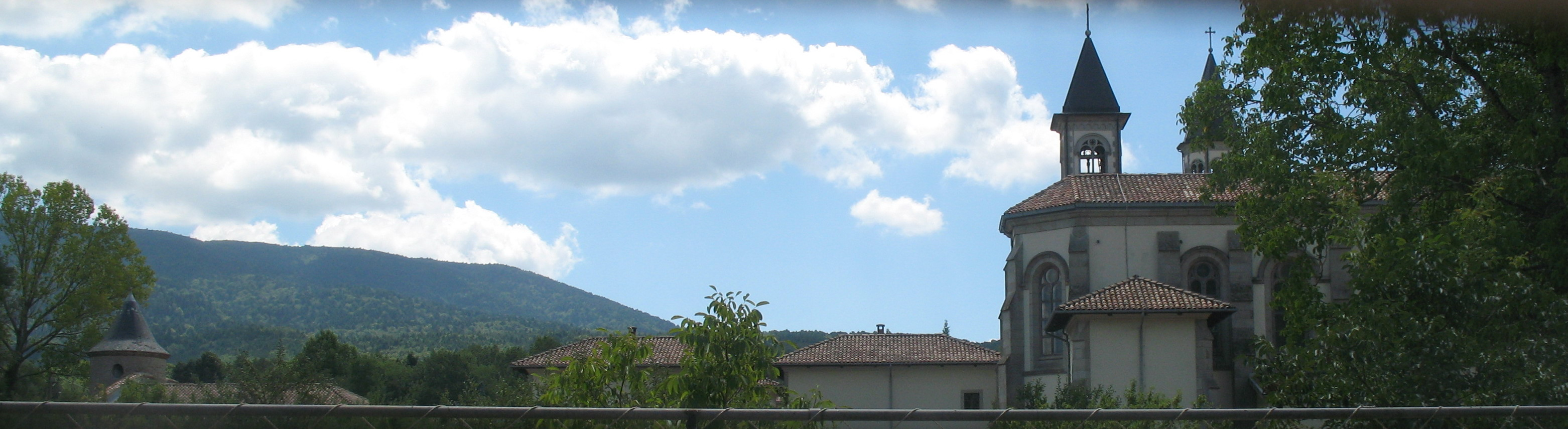 Carthusian of Serra San Bruno